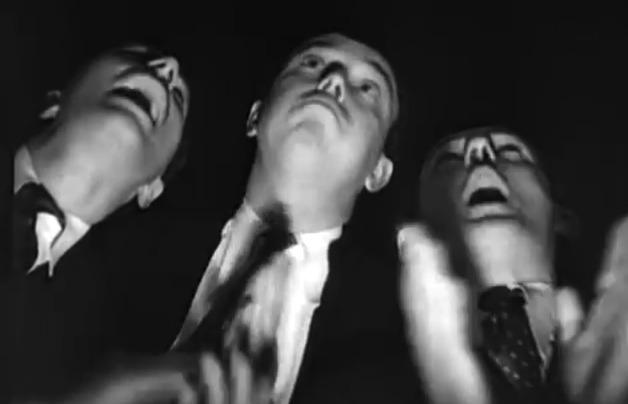 People applauding during a scene in The Life and Death of 9413: a Hollywood Extra (1928).